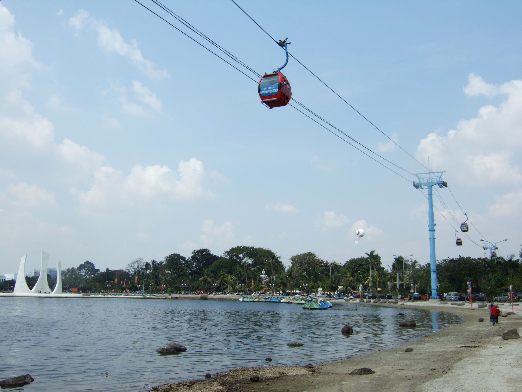 Danau Beach, Ancol Jakarta Bay City, Indonesia